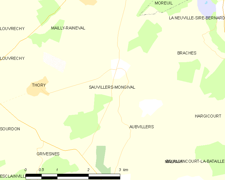 Map of French municipality Sauvillers-Mongival